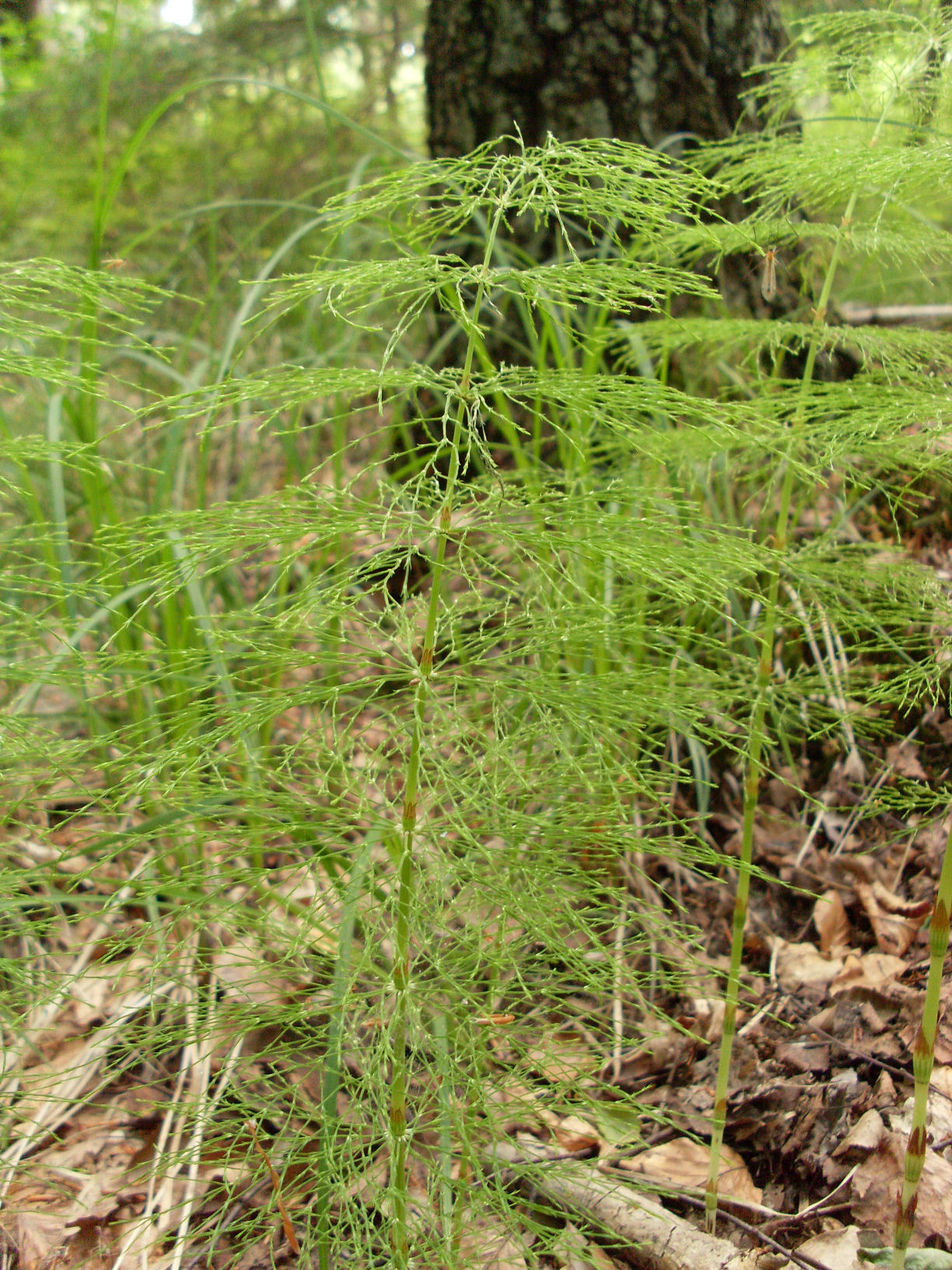 Equisetum sylvaticum. Picture taken i south Sweden